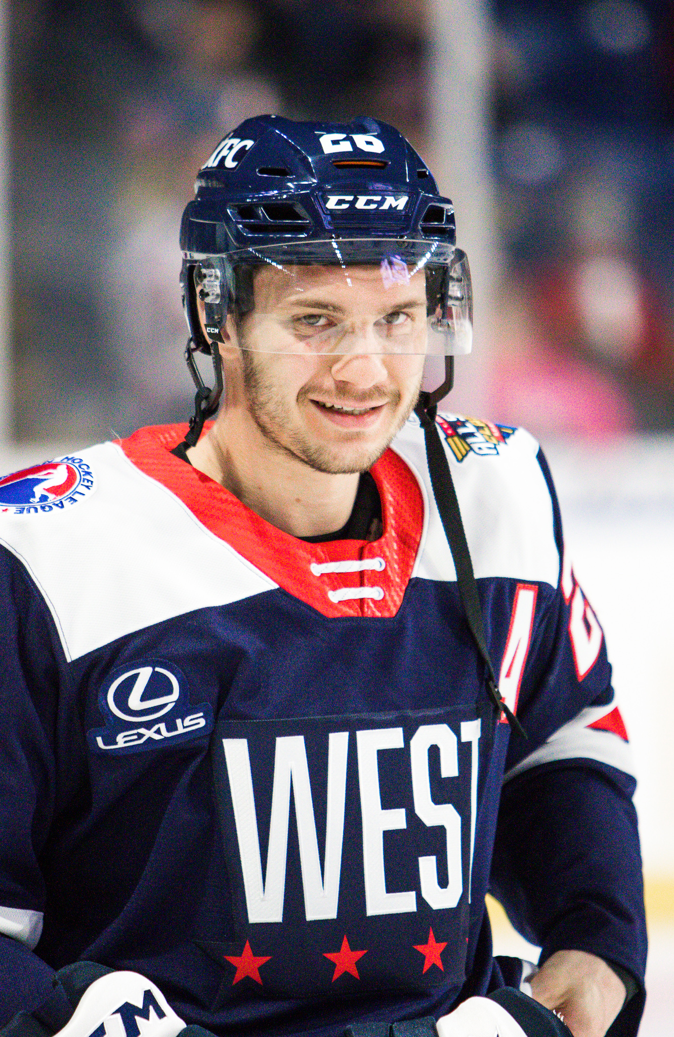 Photo By: Kelly Shea